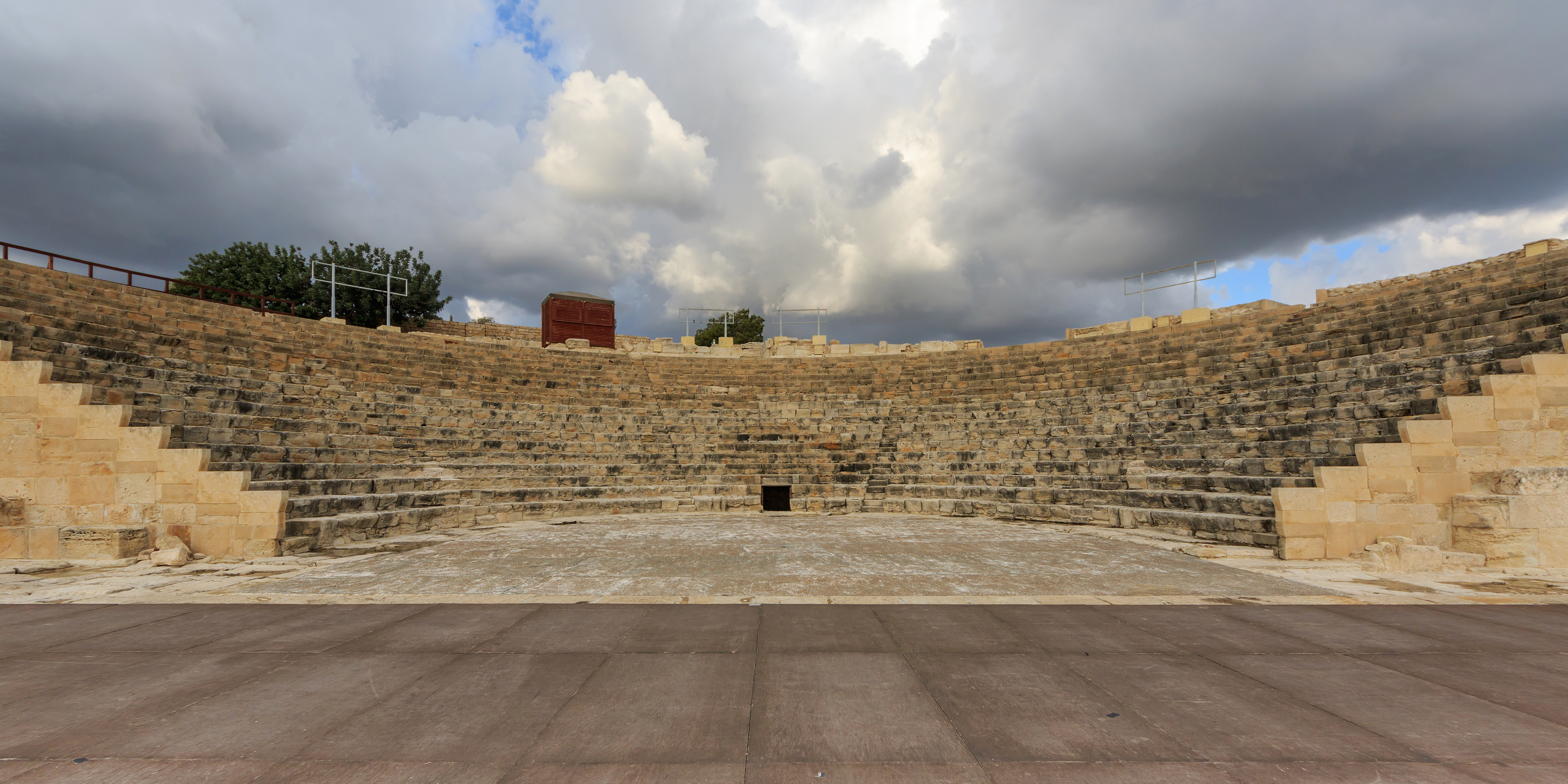 Ancient town of Kourion near Limassol, Cyprus. The Theater of Kourion.